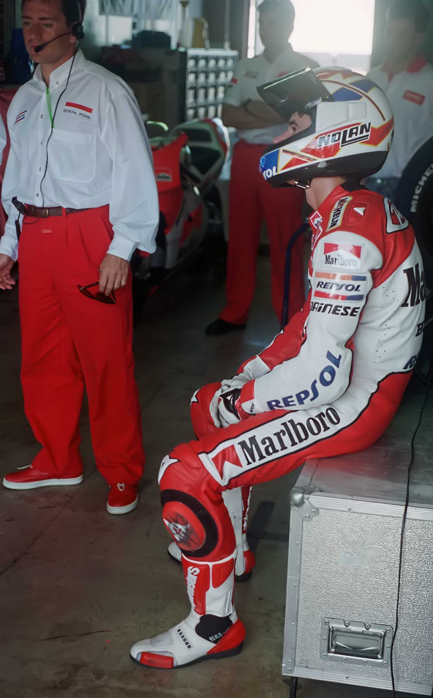 Àlex Crivillé at the Marlboro Honda Pons pit box, with his bike in the background at the 1993 Australian Grand Prix.